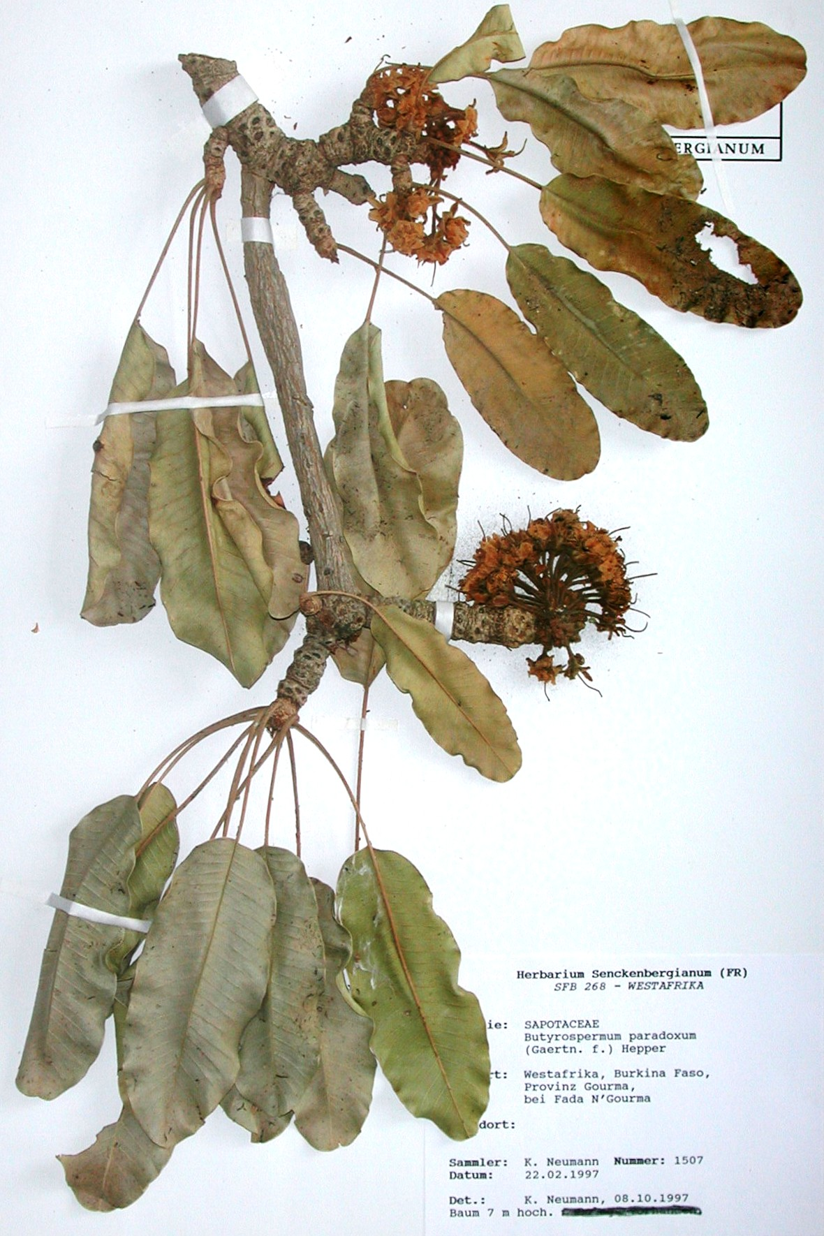 Herbarium specimen of Vitellaria paradoxa, the Shea tree.